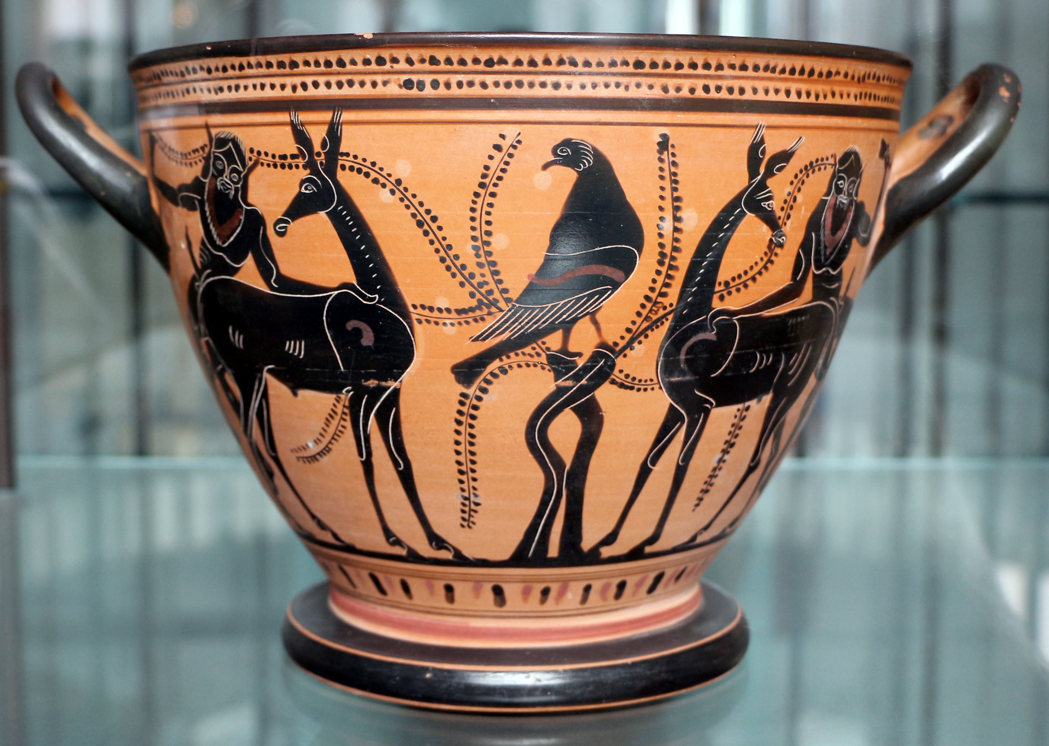 Ancient Greek pottery in the Museo provinciale Sigismondo Castromediano